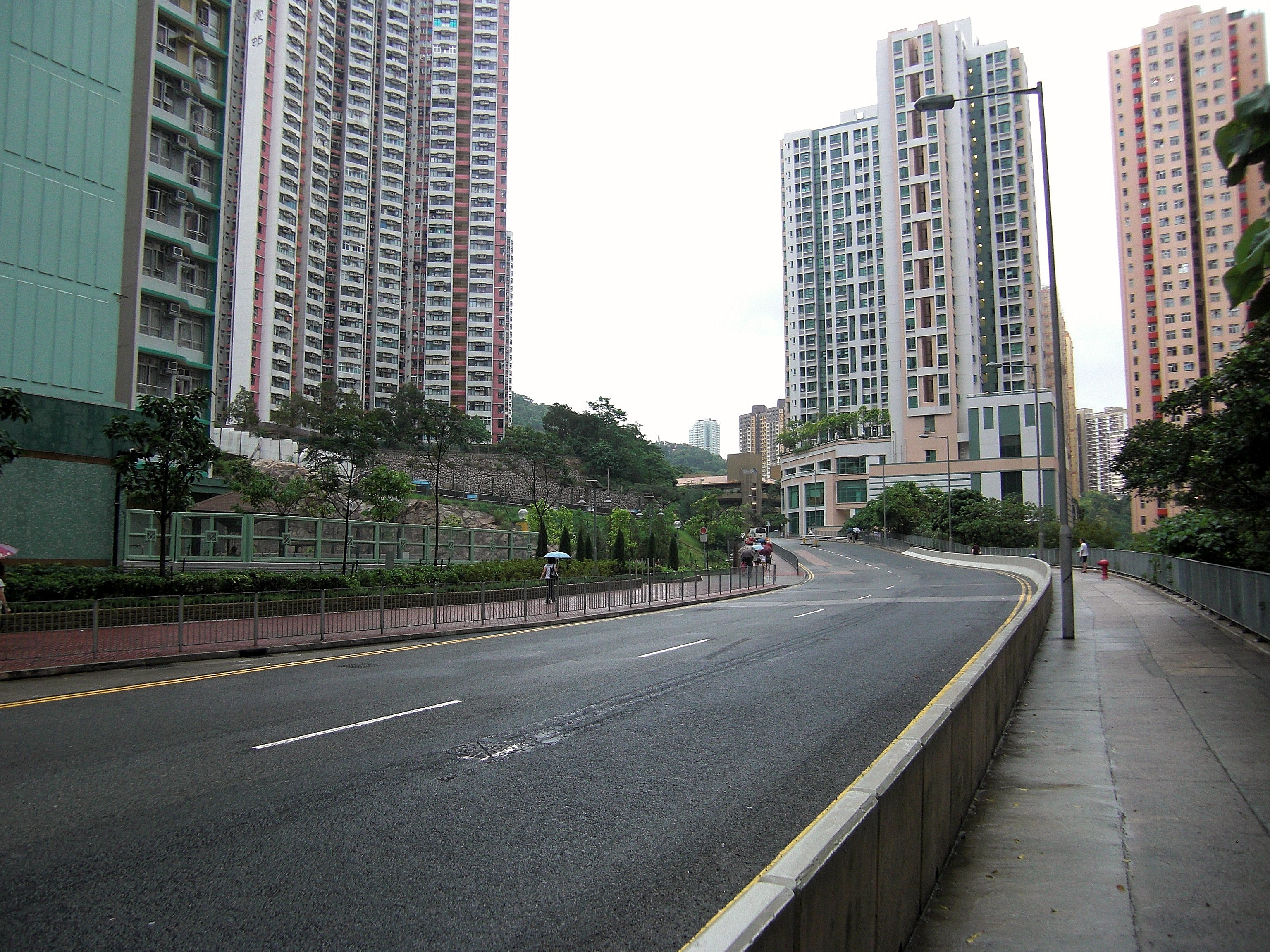 A view of Choi Ha Road near Choi Ha Estate.